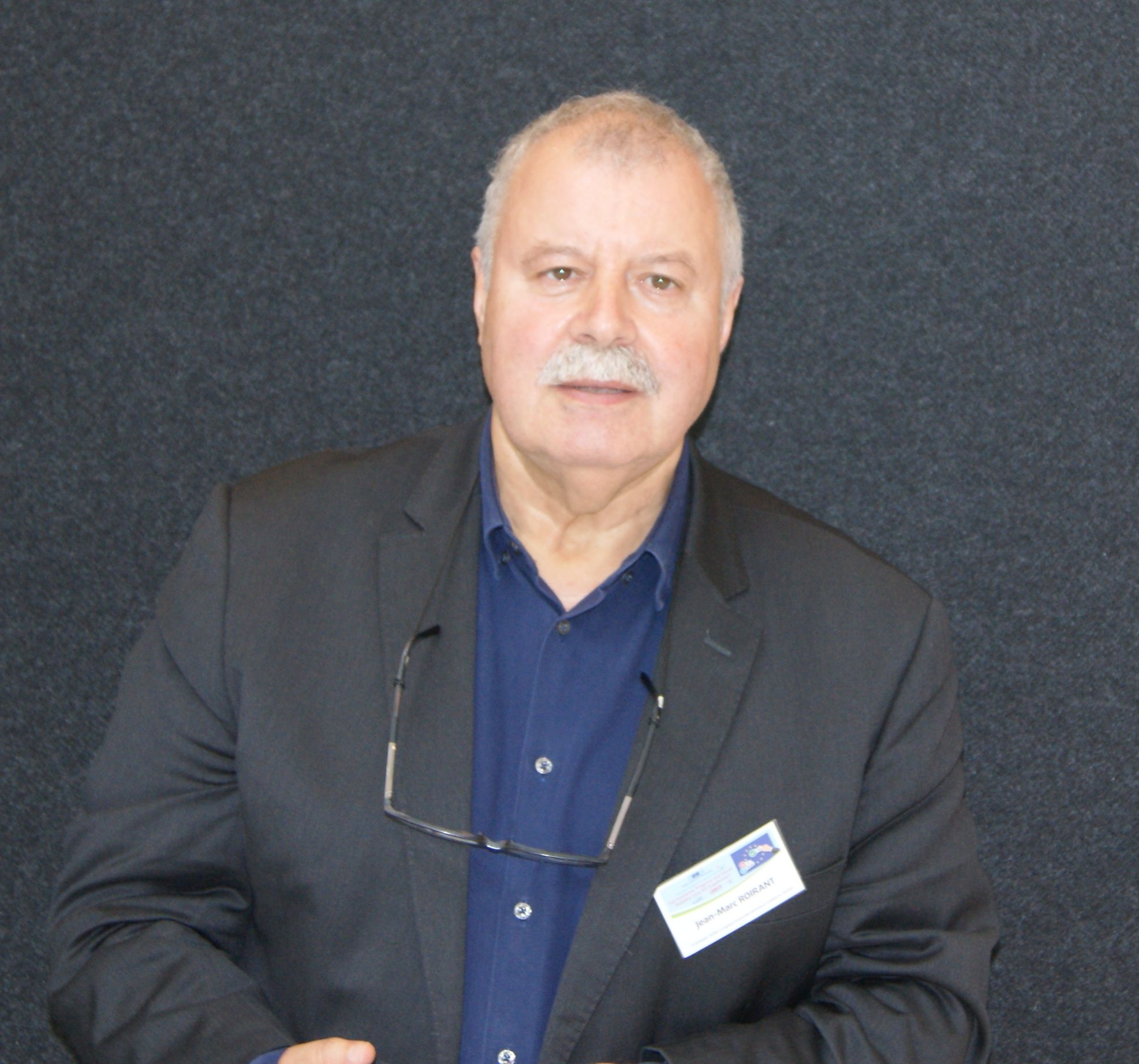 Photo on the occasion of the European Economic and Social Committee event in Feldkirch, Vorarlberg, Austria on 11 October 2018: "Economic progress and social stability as a means against EU skepticism?" Jean-Marc-Roirant has been member of the European Economic and Social Committee (EESC) since 2015, co-president of the Liaison Group of civil society organisations and networks of the EESC between 2006 and 2013, member of the Economic, Social and Environmental French Council from 2004 to 2015, vice-president of the Education League and president of the European Civic Forum and Civil Society Europe.